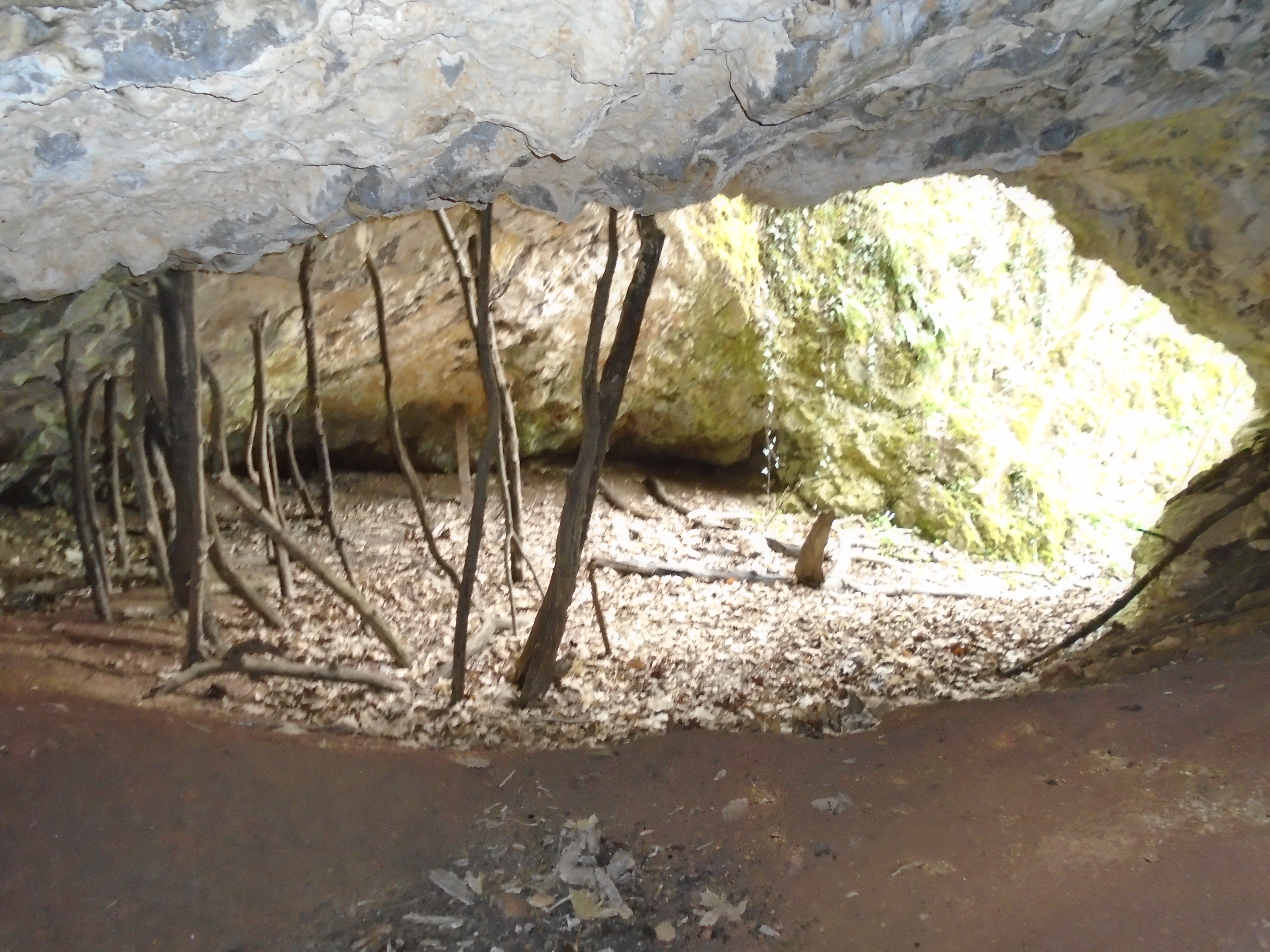 János Cave entrance.